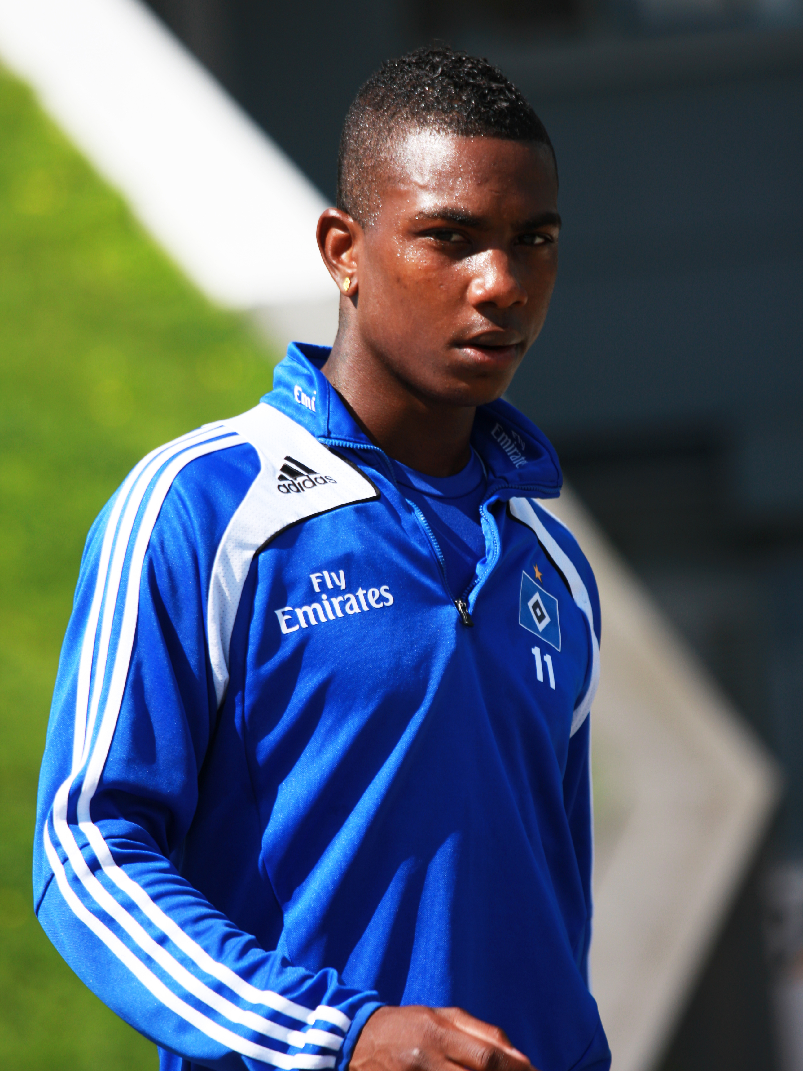 ELJERO ELIA at the HSH- Nordbank Arena after training.